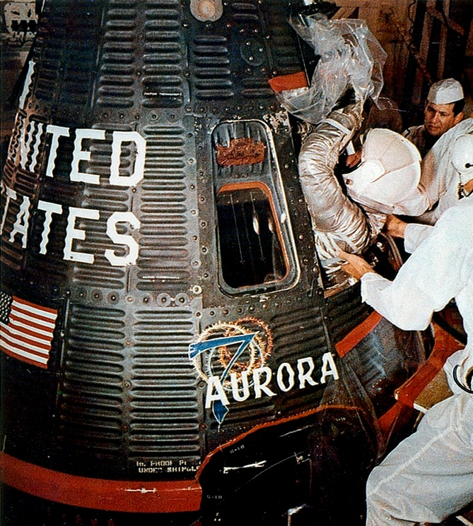 Scott Carpenter is helped into his Aurora 7 spacecraft for the Mercury Atlas 7 mission on May 24, 1962.